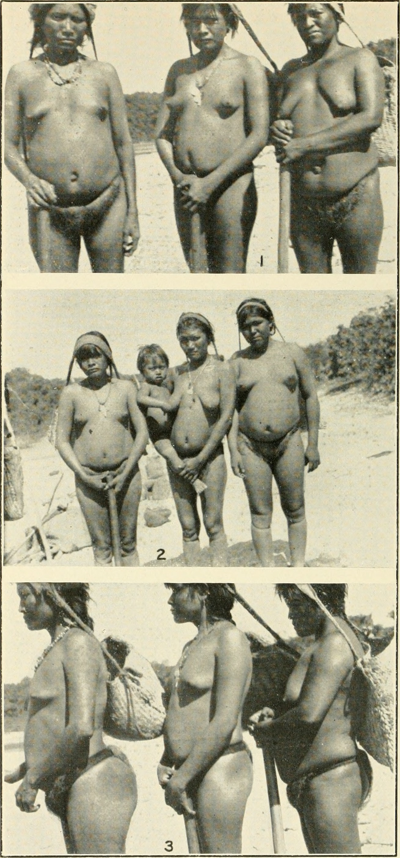 Title: Bulletin Year: 1901 (1900s) Authors: Smithsonian Institution. Bureau of American Ethnology Subjects: Ethnology Publisher: Washington : G. P. O. Text Appearing Before Image: BUREAU OF AMERICAN ETHNOLOGY BULLETIN 123 PLATE IJ Text Appearing After Image: 1,2,3. As soon as the night chill is dispelled the men leave to hunt and the women to gather roots and seeds The equipment of the women consists of basket carried with a tump band aci;oss the forehead, and digging stick. Children are carried astride across the hip or in a carrying net. The aboriginal clothing of the Yaruro women is the girdle shown in these photographs, now worn even if the individual possesses a camisole.